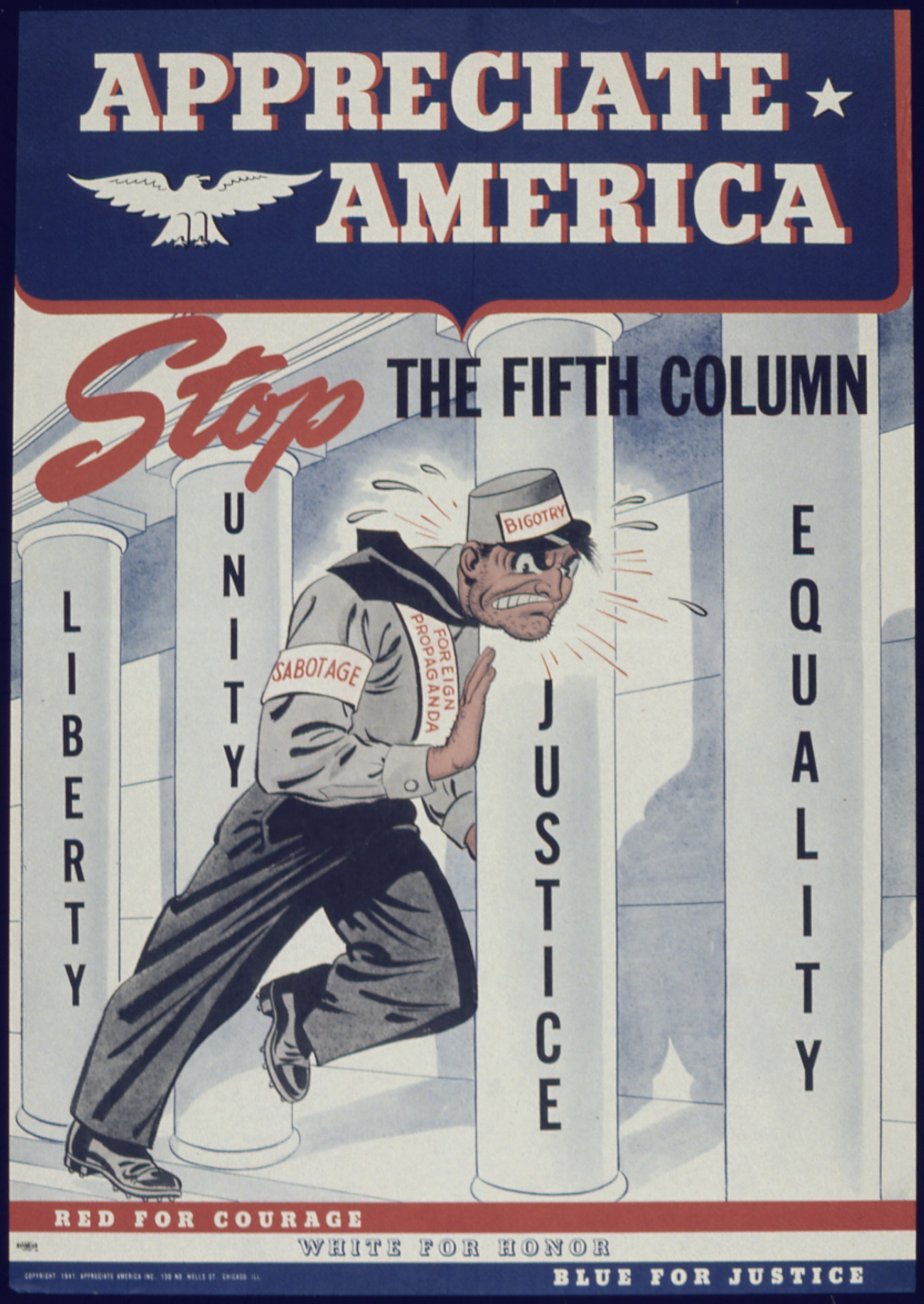 General notes: "Bigotry", "Foreign Propaganda", "Sabotage" vainly attempts to overthrow the four columns of "Liberty", "Unity", "Justice", "Equality". "Red for Courage; white for honor; blue for justice".